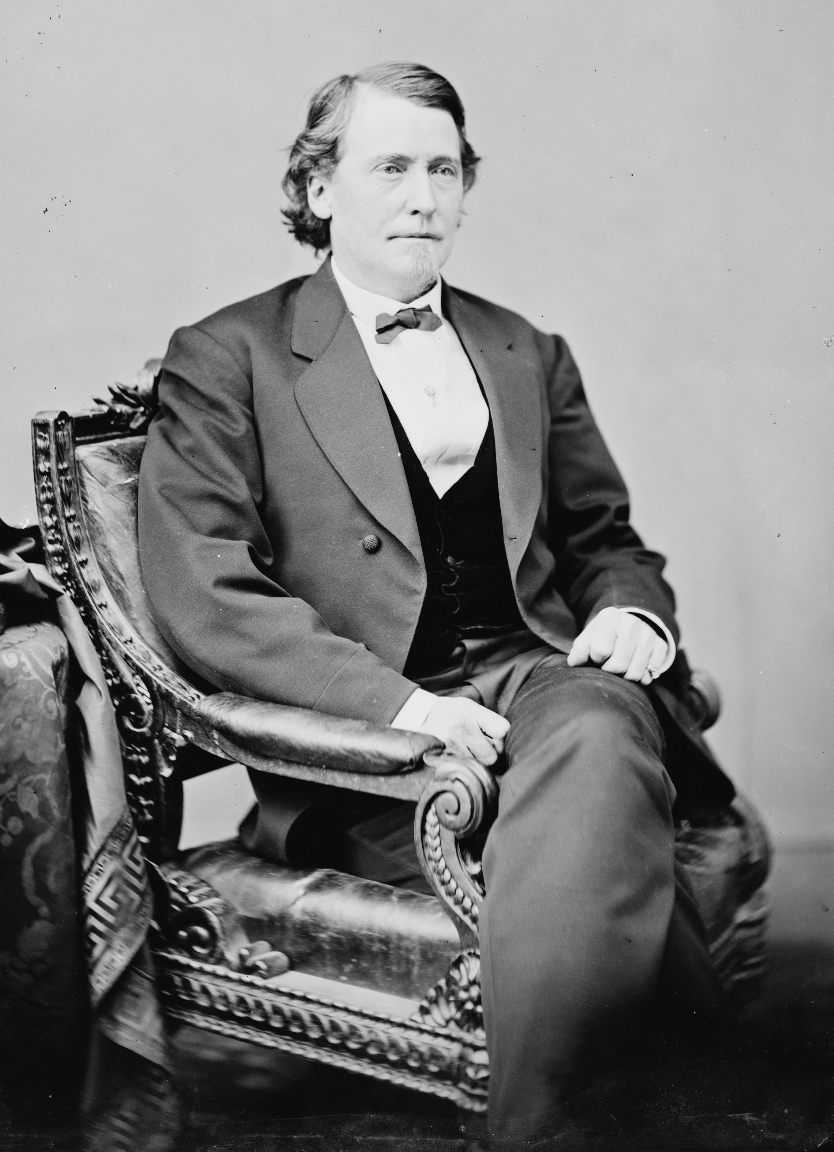 William Crawford Sherrod. Library of Congress description: "Hon. Wm. Crawford Sherrod of Alabama"